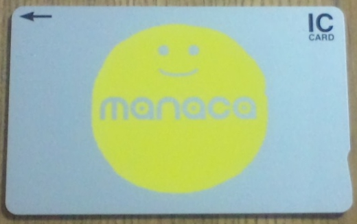 manaca card, an IC card used in Nagoya, Japan